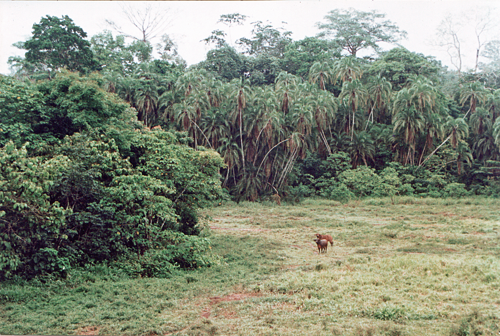 Forest buffalo in Lobéké National Park, East Province, Cameroon